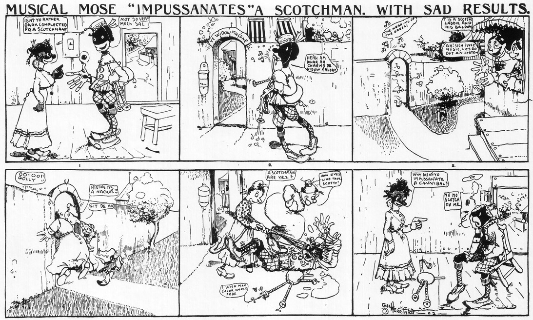 Musical Mose "Impussanates" a Scotchman, with Sad Results by George Herriman 1902-02-16